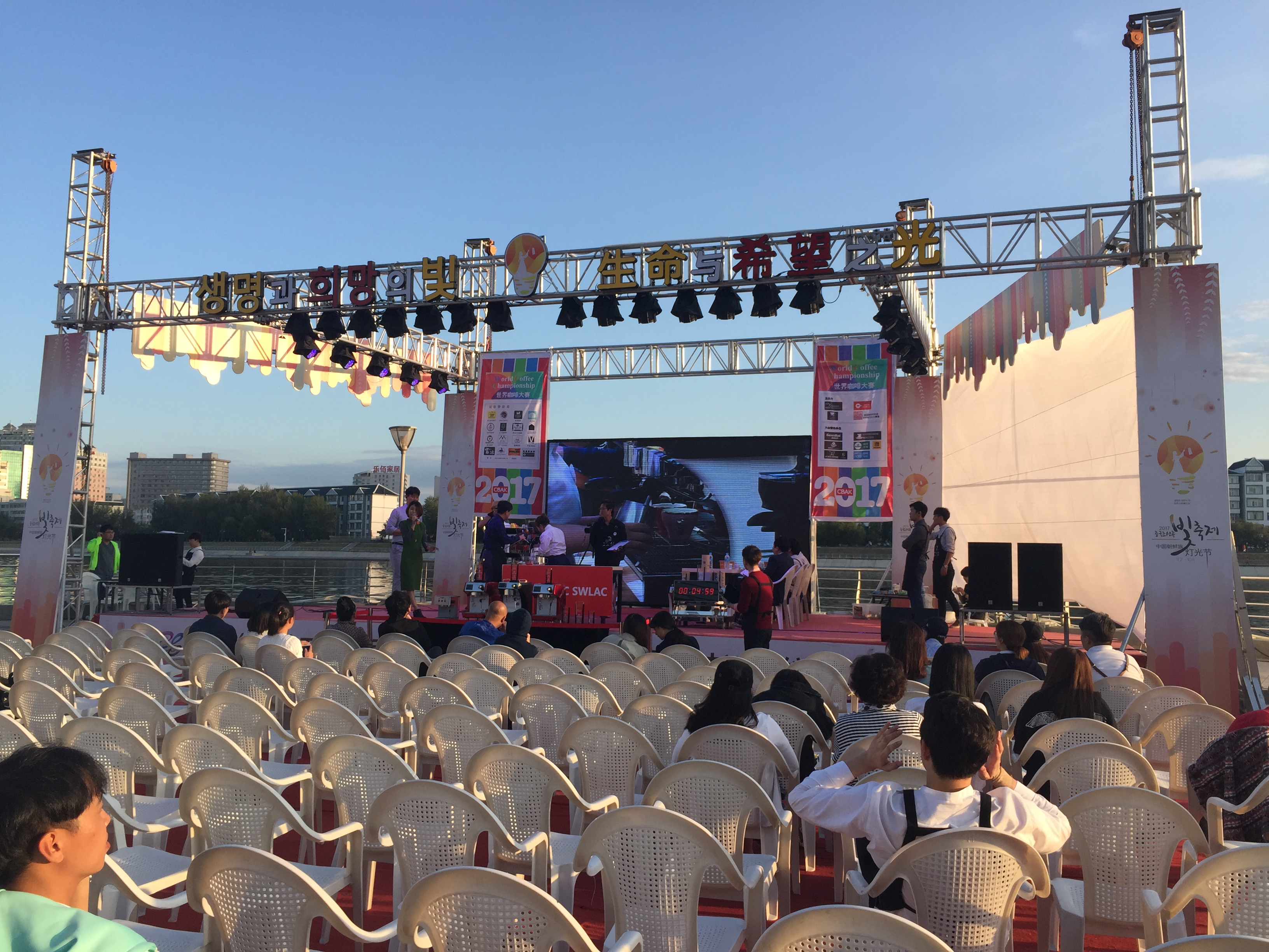 2017 CXZ Light Festival - Arena